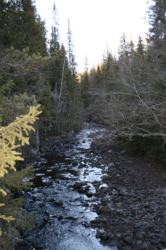 River Lomma in Bærum, Norway